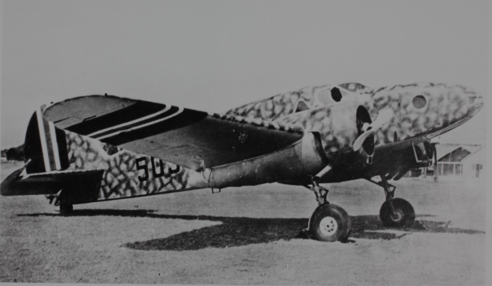 PictionID:42002936 - Title:Savoia-Marchetti SM.79 - Catalog:15_003030 - Filename:15_003030.TIF - Image from the Charles Daniel's Collection Italian Aircraft Album.Repository: San Diego Air and Space Museum Archive